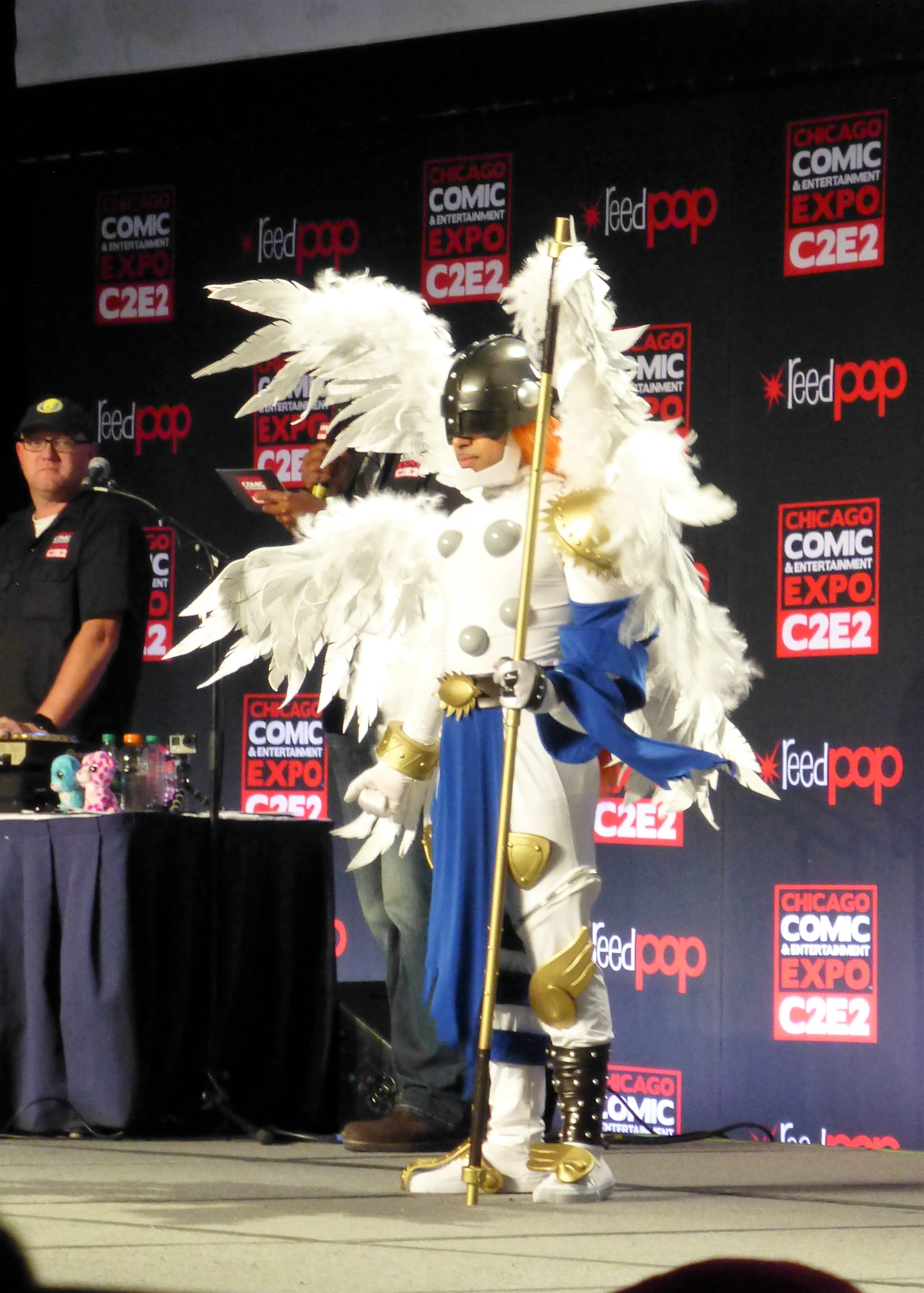 Bryan as Angemon (from Digimon) in the Third Annual ReedPOP Crown Championships of Cosplay held at Chicago Comic & Entertainment Expo (C2E2) 2016.